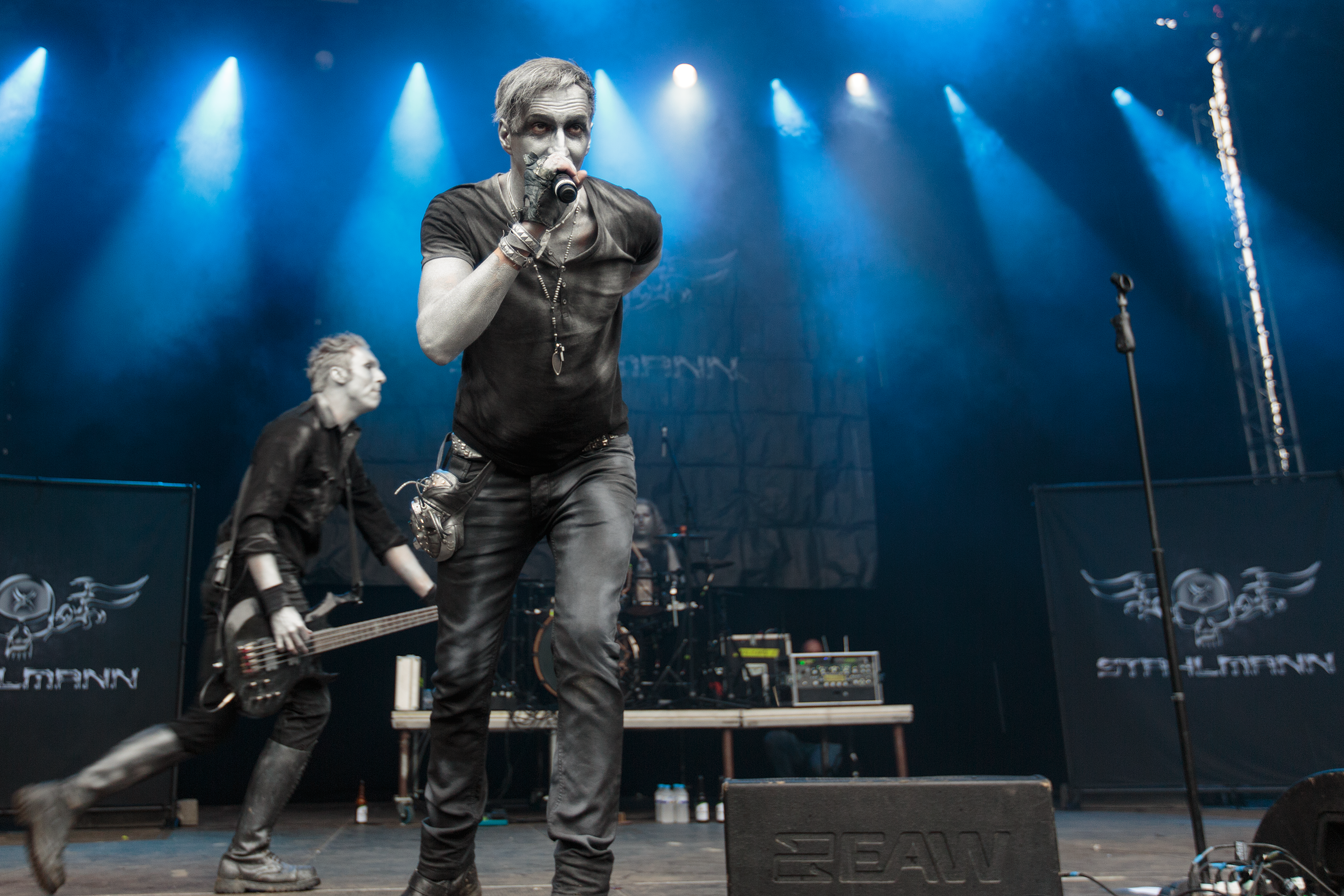 Stahlmann at the Hexentanz Festival 2015 in Losheim, Germany.